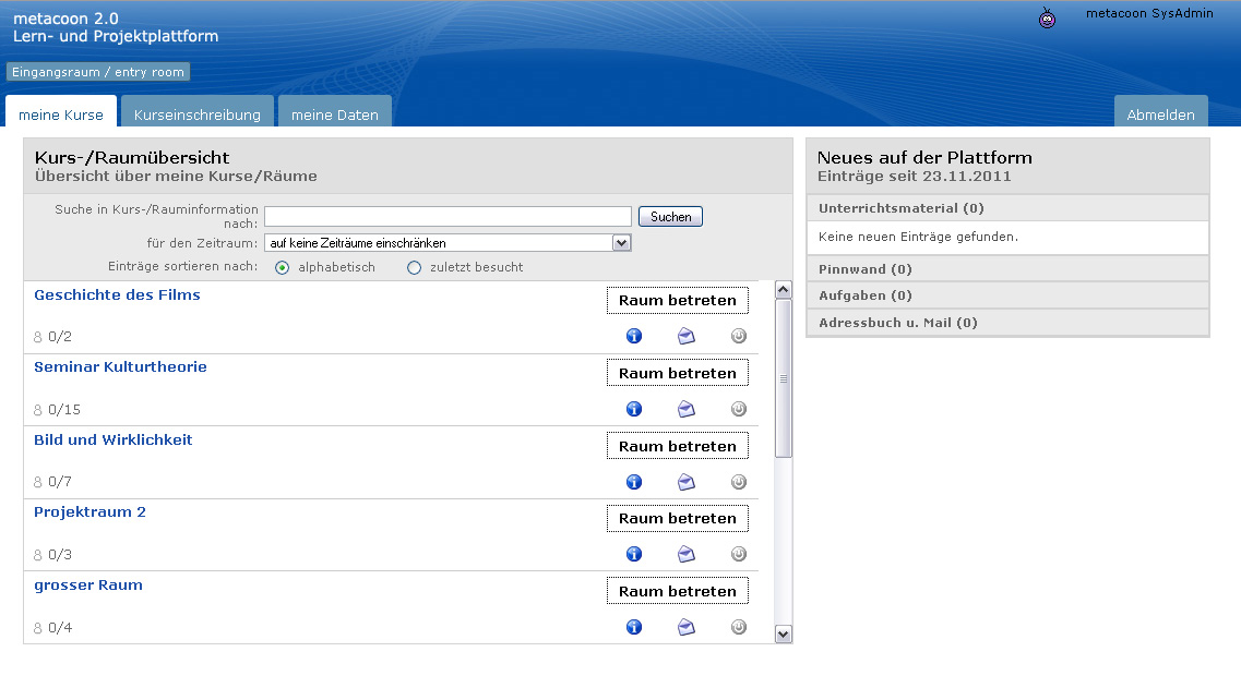 Entry room of a metacoon platform